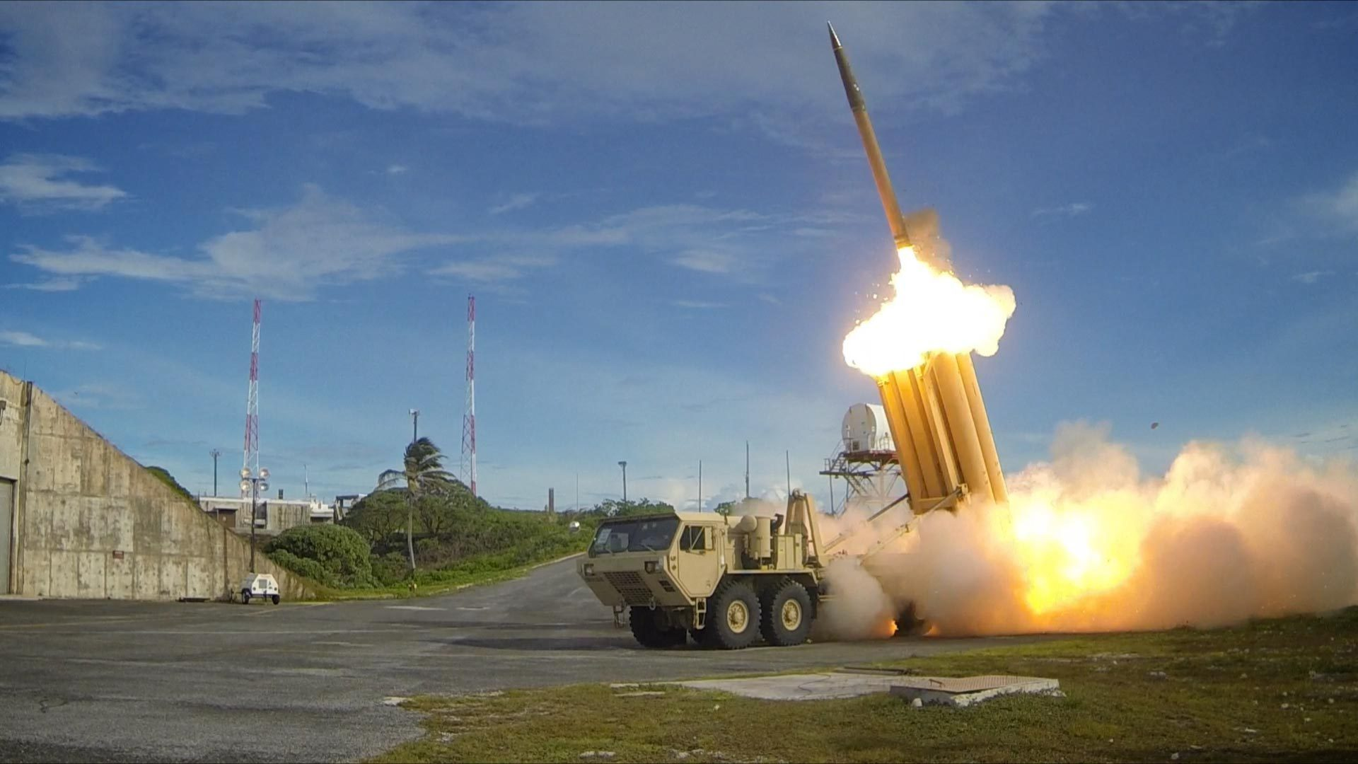 The first of two Terminal High Altitude Area Defense (THAAD) interceptors is launched during a successful intercept test. The test, conducted by Missile Defense Agency (MDA), Ballistic Missile Defense System (BMDS) Operational Test Agency, Joint Functional Component Command for Integrated Missile Defense, and U.S. Pacific Command, in conjunction with U.S. Army Soldiers from the Alpha Battery, 2nd Air Defense Artillery Regiment, U.S. Navy sailors aboard the guided missile destroyer USS Decatur (DDG-73), and U.S. Air Force airmen from the 613th Air and Operations Center resulted in the intercept of one medium-range ballistic missile target by THAAD, and one medium-range ballistic missile target by Aegis Ballistic Missile Defense (BMD). The test, designated Flight Test Operational-01 (FTO-01), stressed the ability of the Aegis BMD and THAAD weapon systems to function in a layered defense architecture and defeat a raid of two near-simultaneous ballistic missile targets